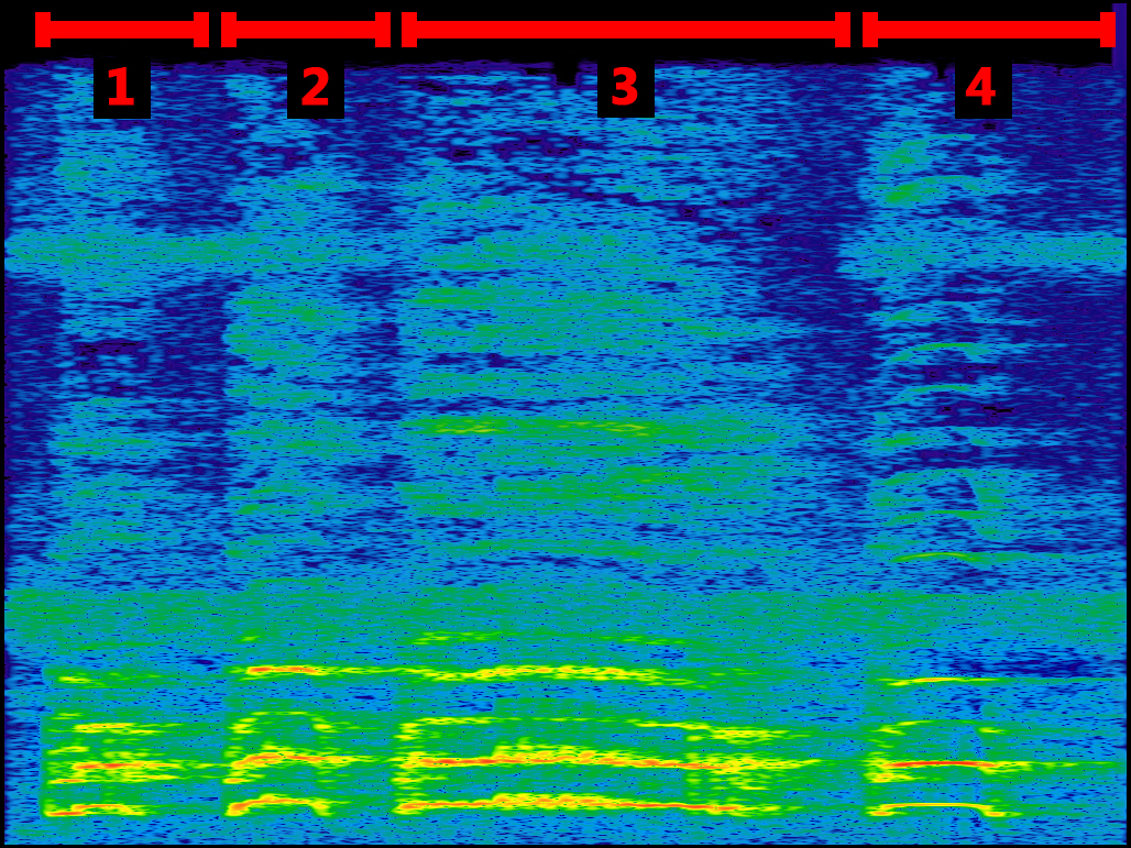 Spectrogram of the crowing of a bankiva fowl (recording near Taman Negara, Malaysia)